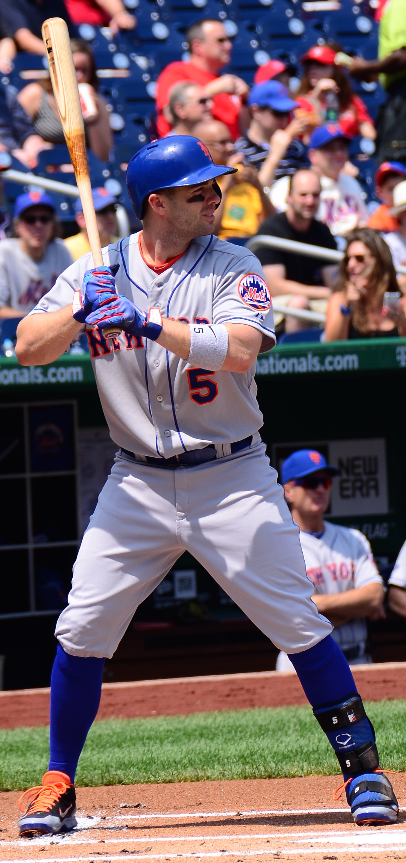 David Wright in 2014.